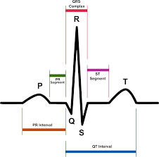 Elektrokardiogram